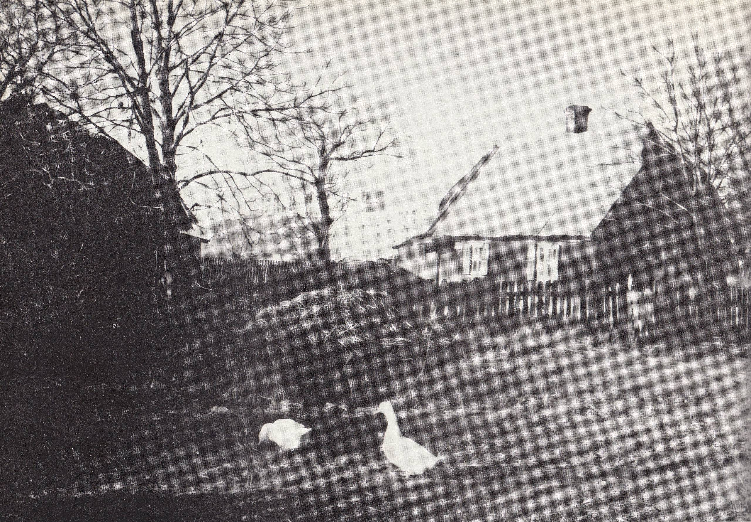 Ustronie Neighbourhood in Radom